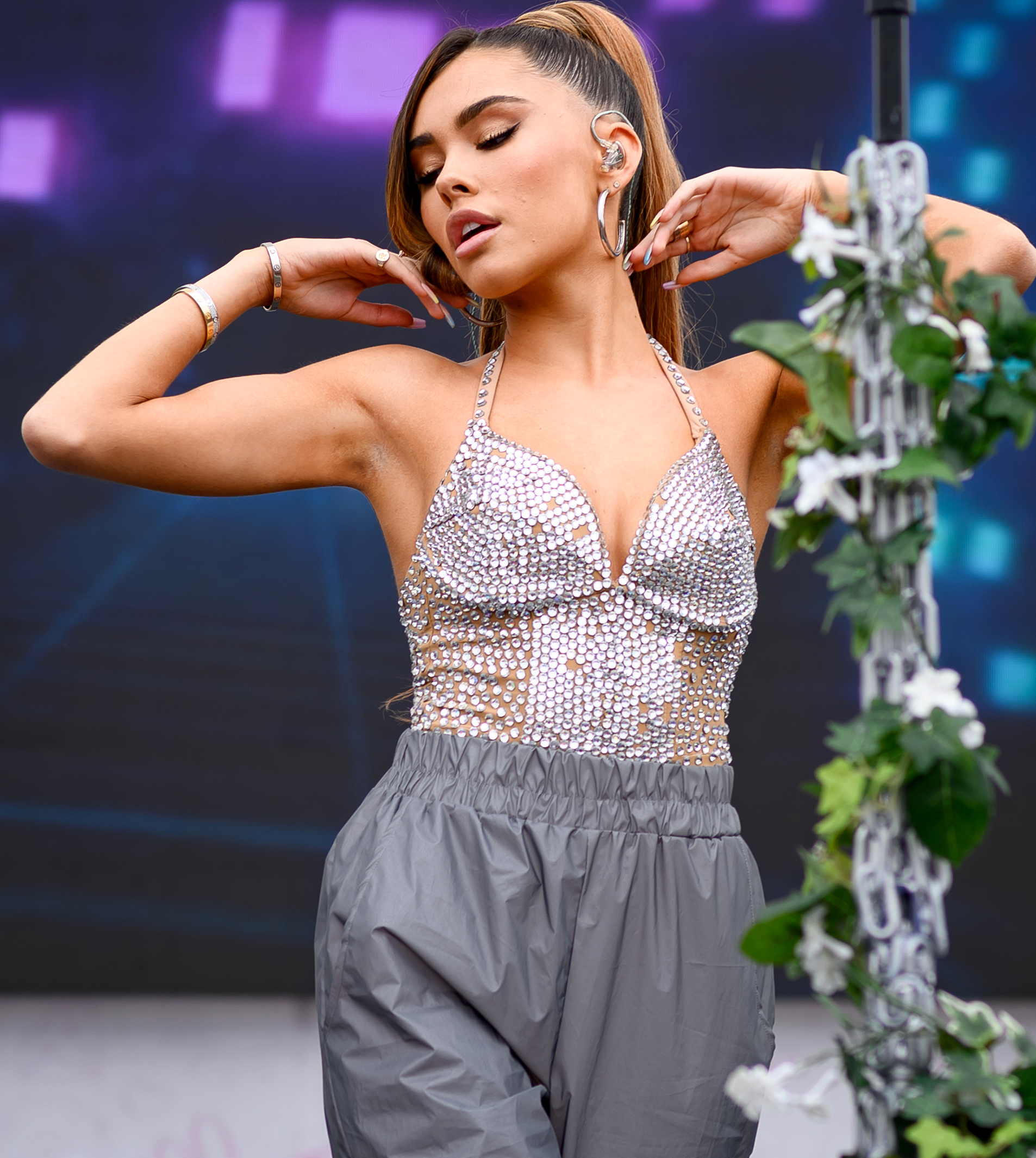 Madison Beer performing live at the Wango Tango Village in Dignity Health Sports Park in Carson, California, on Saturday, June 1, 2019.